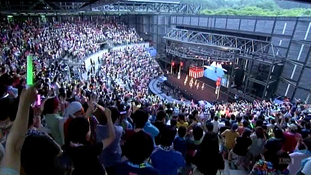 stellartheater